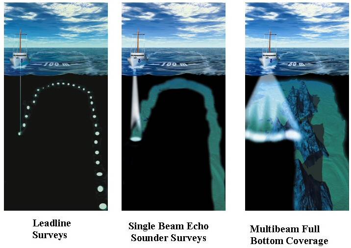 Vahcuengh: echosounder progression